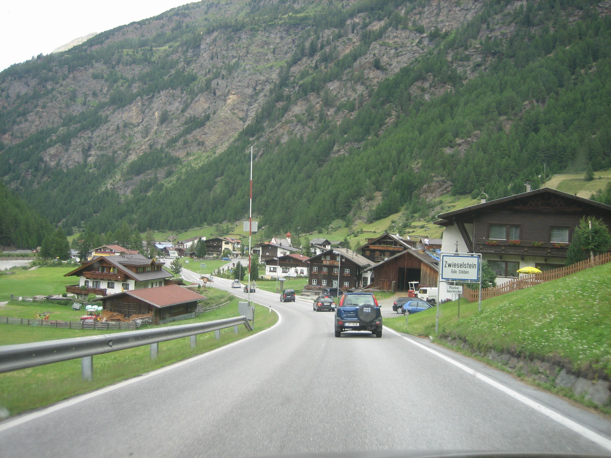 Village of Zwieselstein, Ötztal, Austria